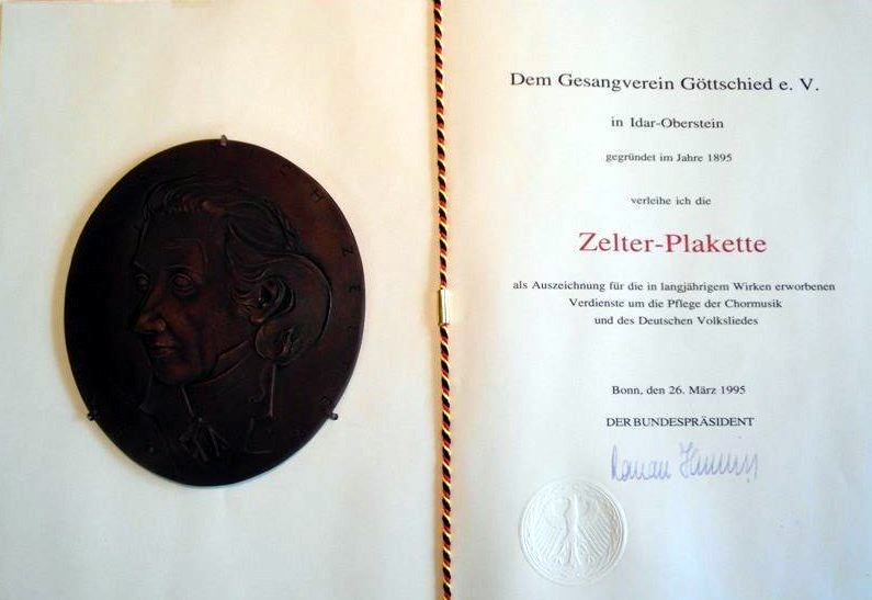 medal of Zelter by choral society of Göttschied/Idar-Oberstein